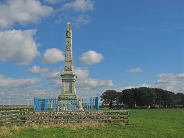 Lochgoin Monument Lochgoin Farm sits amongst the trees to the right of frame. As you can see this moorland is now well populated with wind turbines.